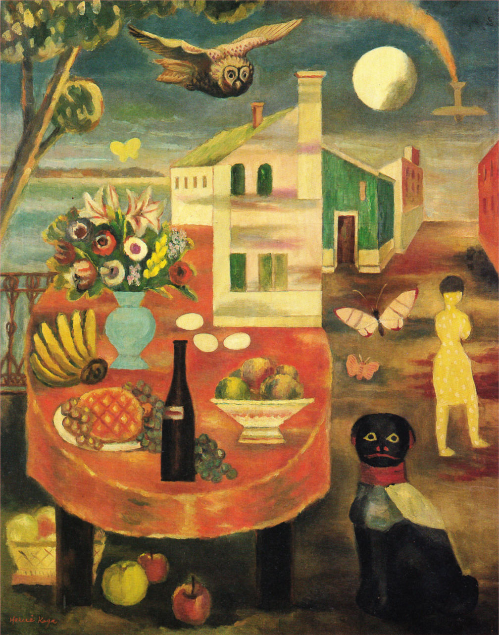 Oil painting by Japanese avant-garde painter Harue Koga, first exhibited in 1929 at the 16th Nika Exhibition